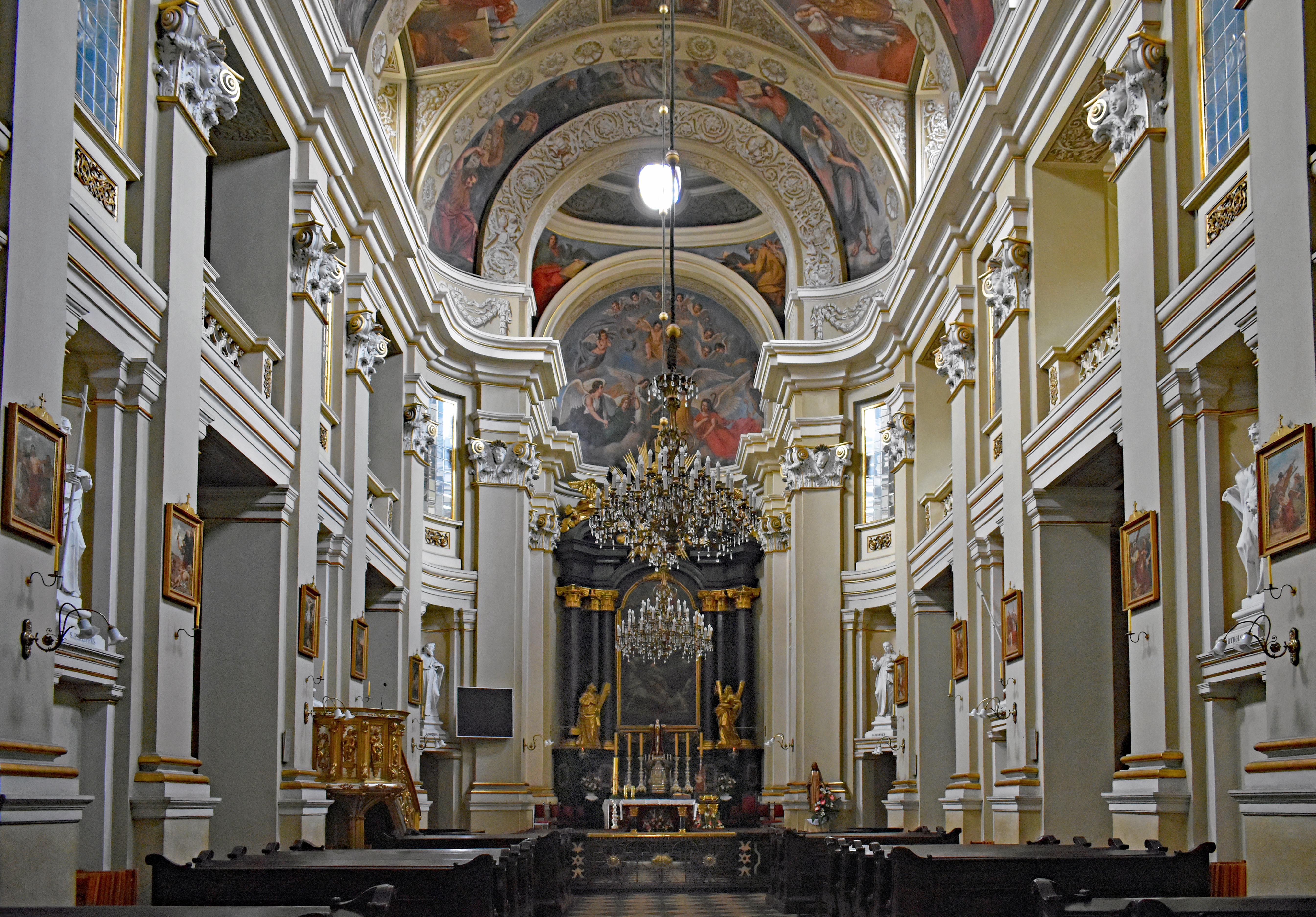 Conversion of St. Paul Church (interior), 4 Stradomska street, Krakow, Poland